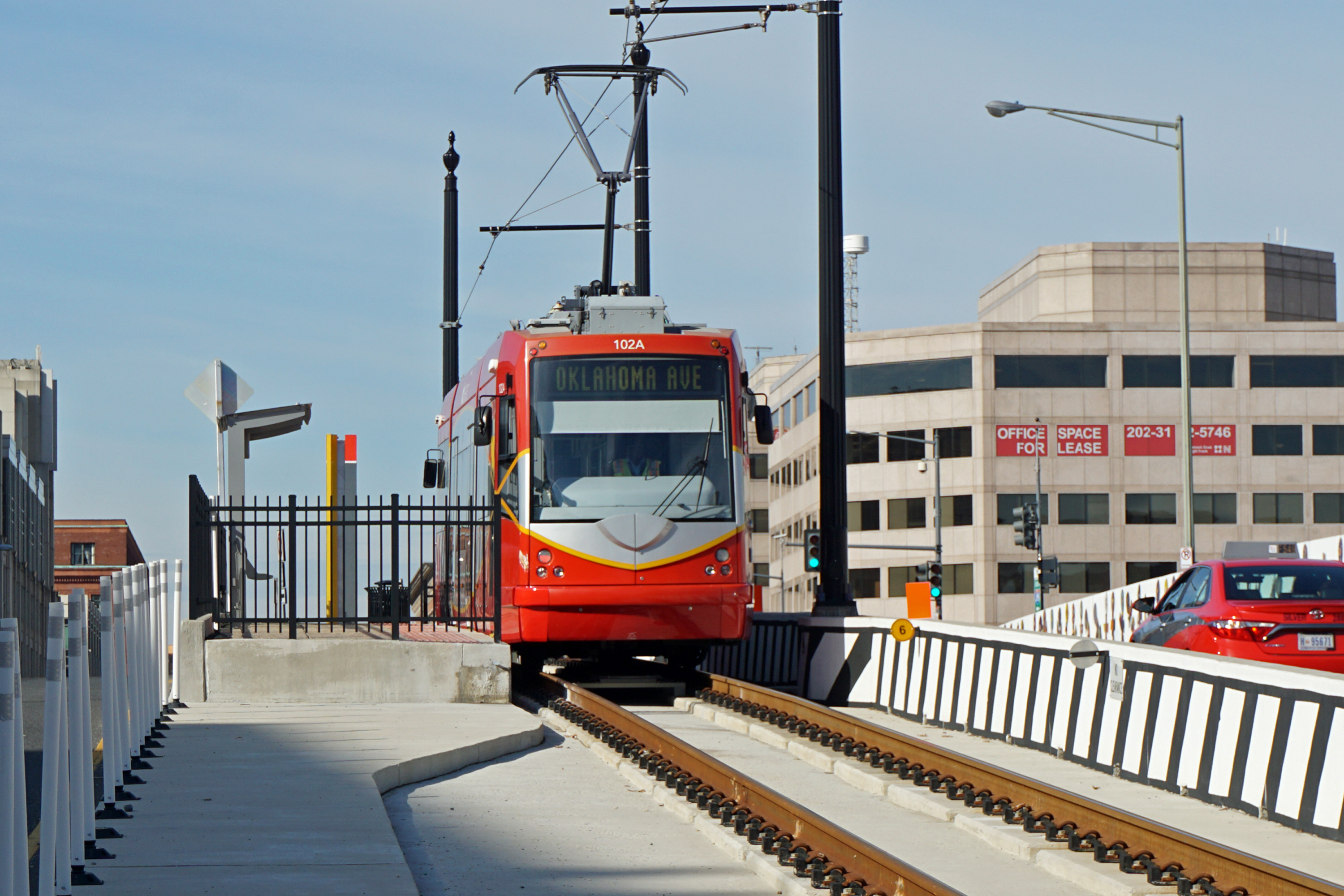 DC Streetcar on H Street NE, Washington, D.C. The trams are running as part of a testing phase. Shown at the end stop in Union Station